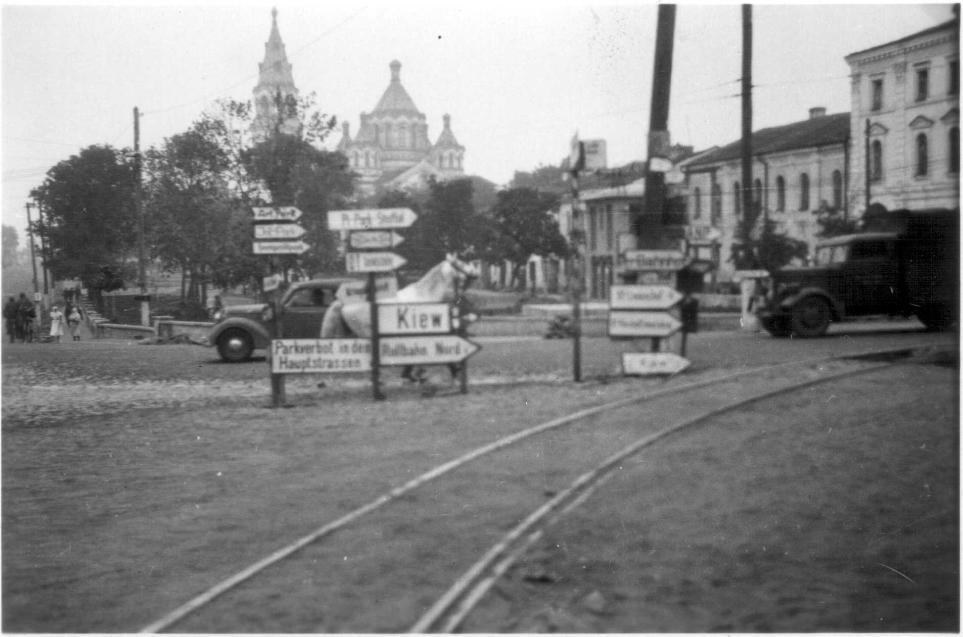 Background: Svyato-Preobrajenskiy cathedral in Zhytomyr during WWII. Sight from Peremogy Str. In the front: German direction signs.